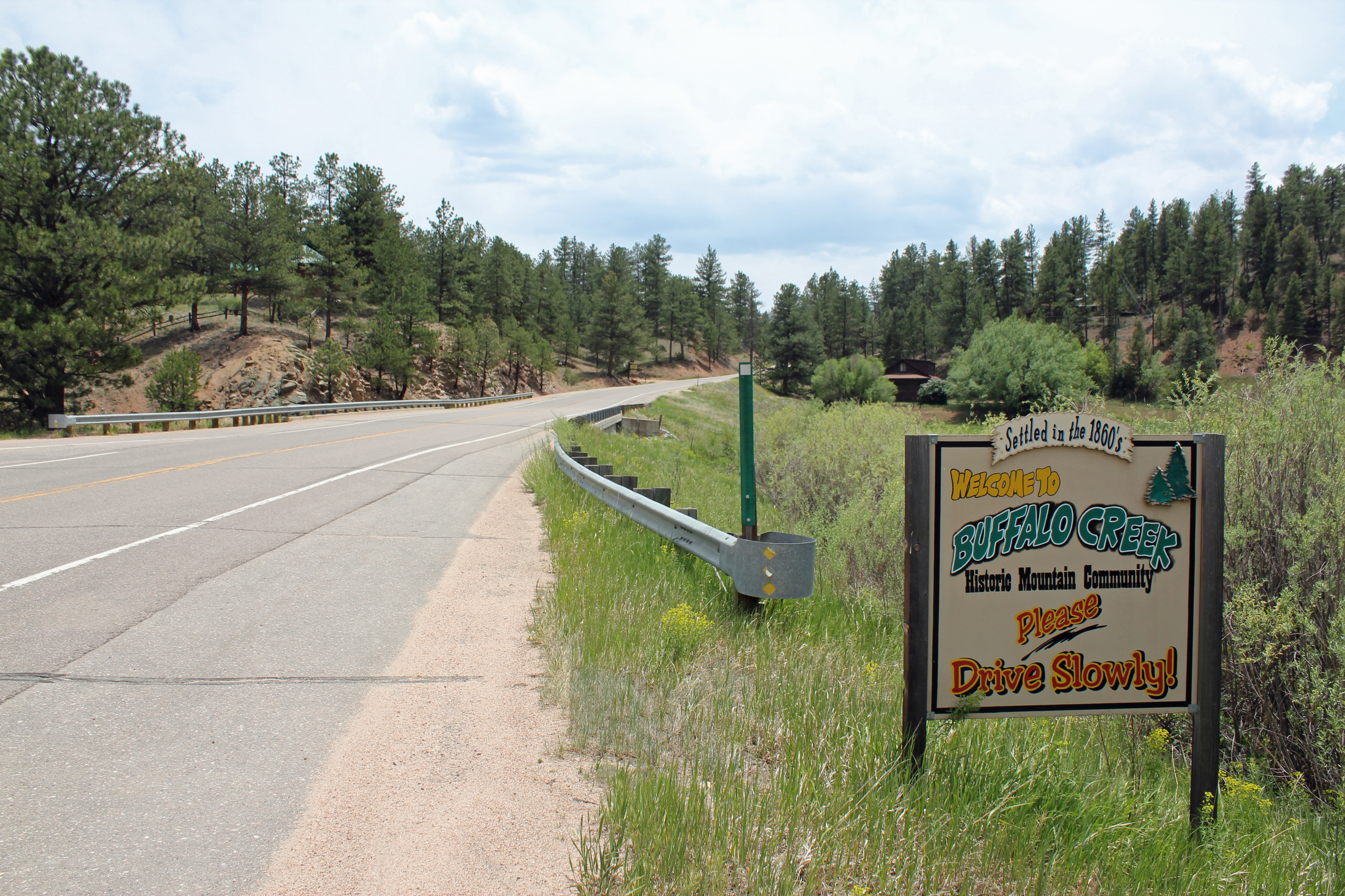 The welcome sign for Buffalo Creek, Colorado. The sign is located on Deckers Road just north of where it goes over the North Fork South Platte River.